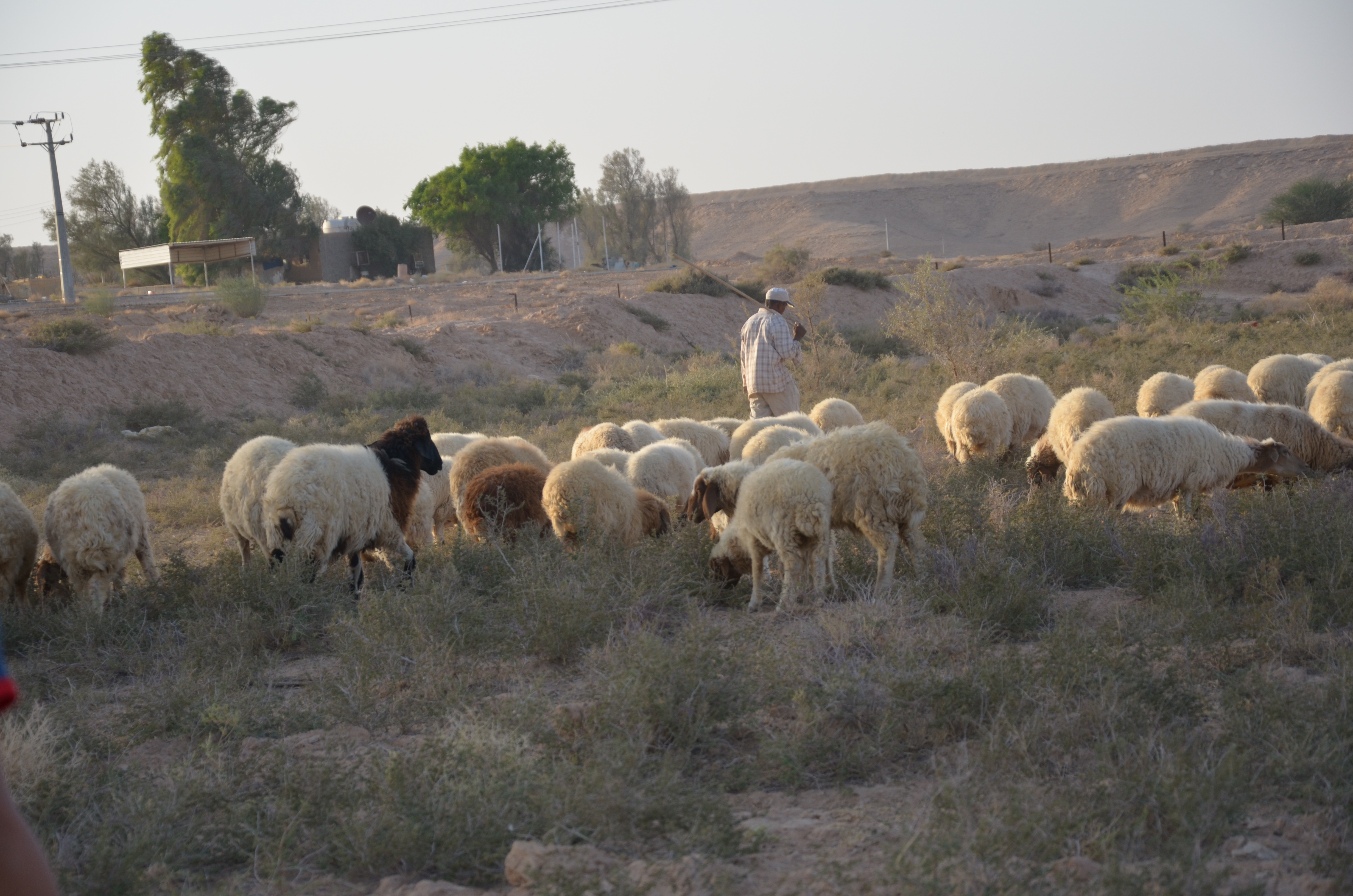 Shepherd and sheep in Saudi Arabia